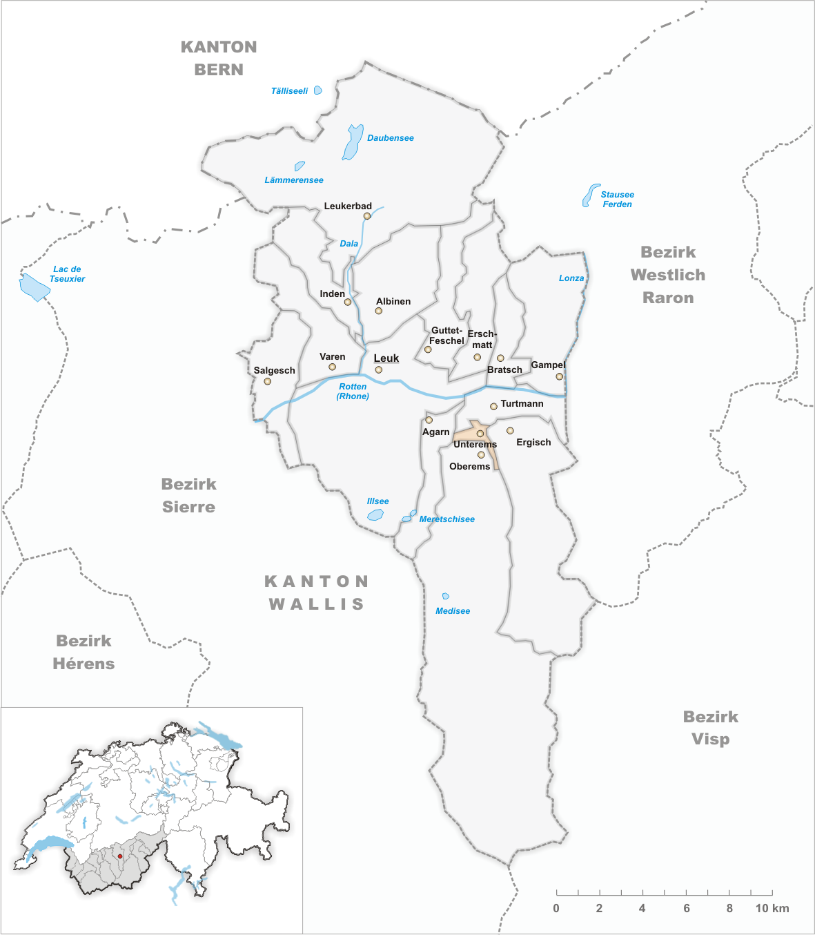 Municipality Unterems